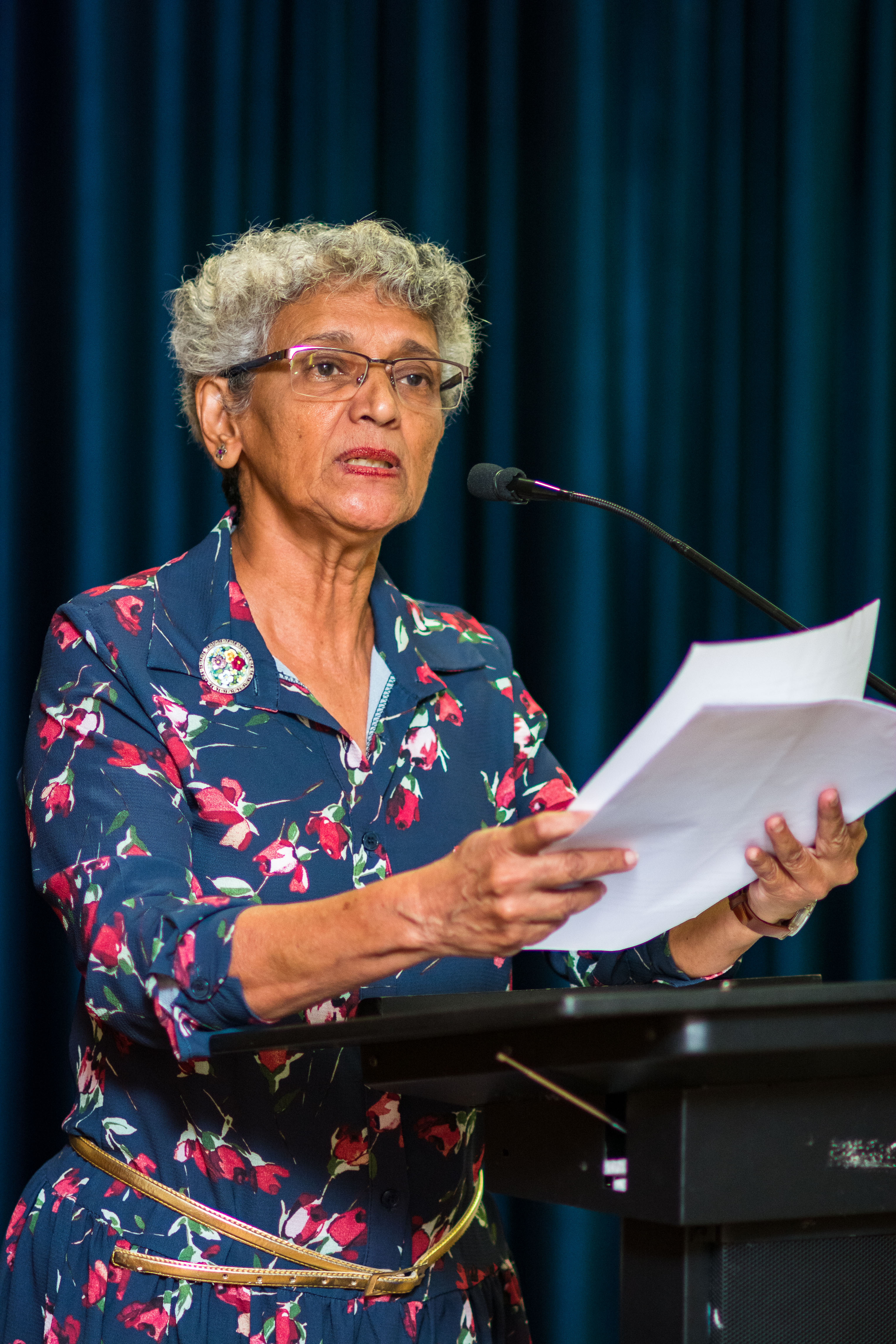 Isabel Santa Rita Vaz, English Department, Goa University